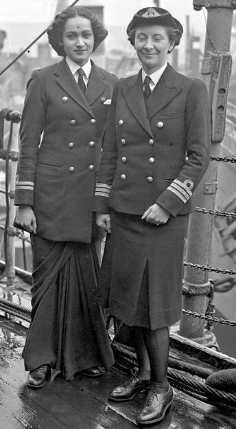 Chief Officer Margaret L Cooper, Deputy Director of the Women’s Royal Indian Naval Service (WRINS), with Second Officer Kalyani Sen, WRINS at Rosyth during their two month study visit to Britain, 3rd June 1945